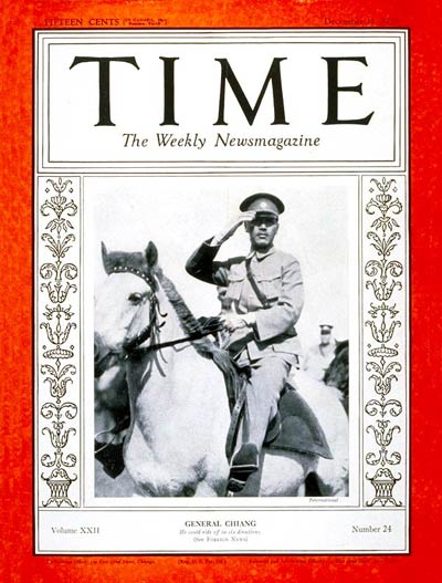 Time magazine, Dec. 11, 1933 The cover shows Chiang Kai-shek.